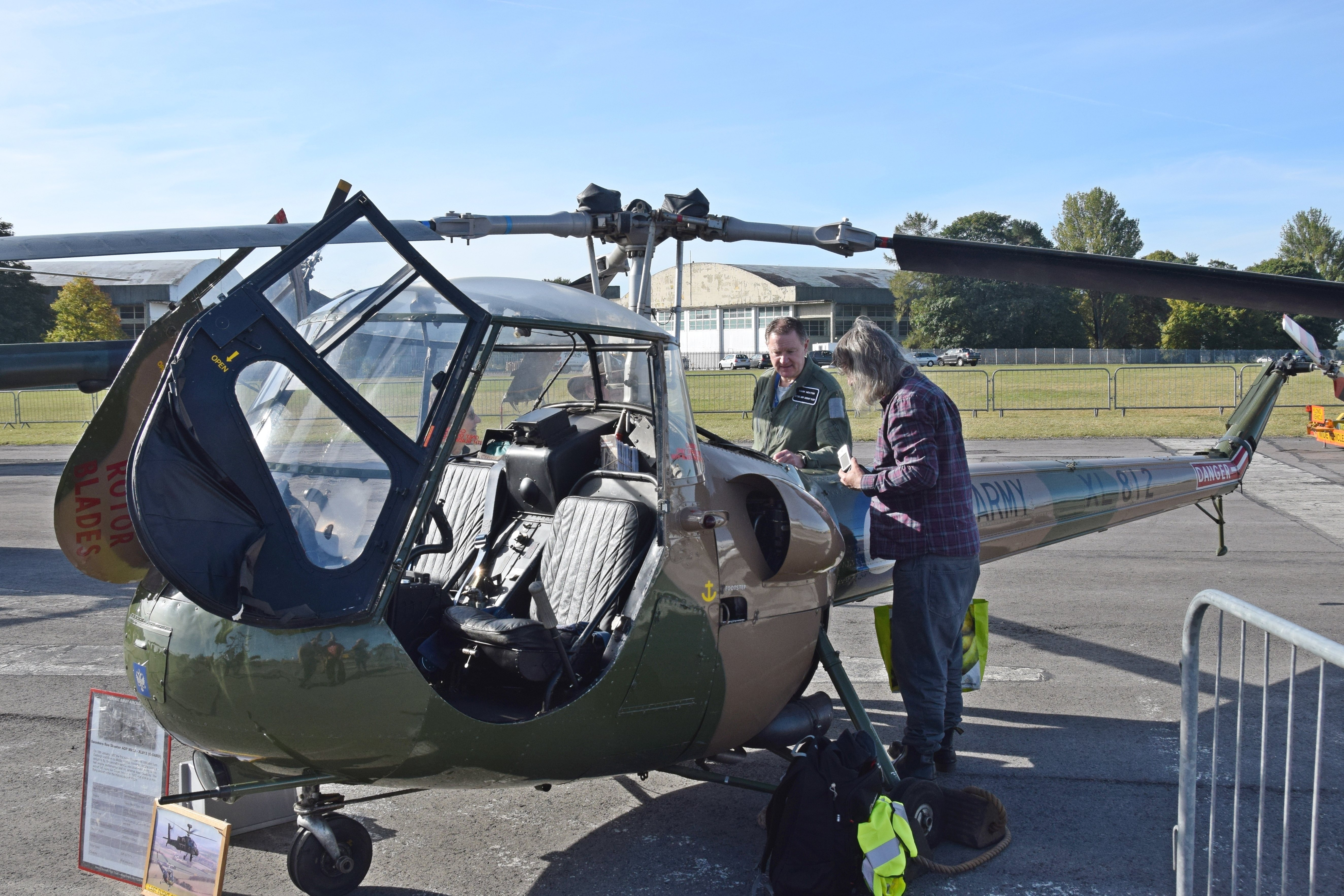 1962 non-flying Saunders-Roe Skeeter AOP12 helicopter (XL812), formerly of the Army Air Corps, at Cotswold Airport Revival Festival, Gloucestershire, England. It was formerly G-SARO but was taken off the UK register in 2010 because it is non-flying. Brought to the event on a trailer, from its home at the Army Flying Museum, Middle Wallop, Hampshire, England.